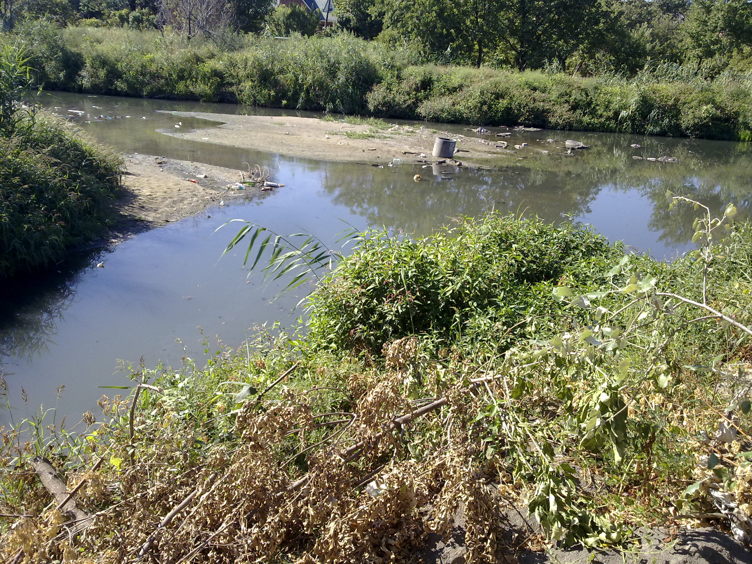 Bezymyanny stream's mouth.